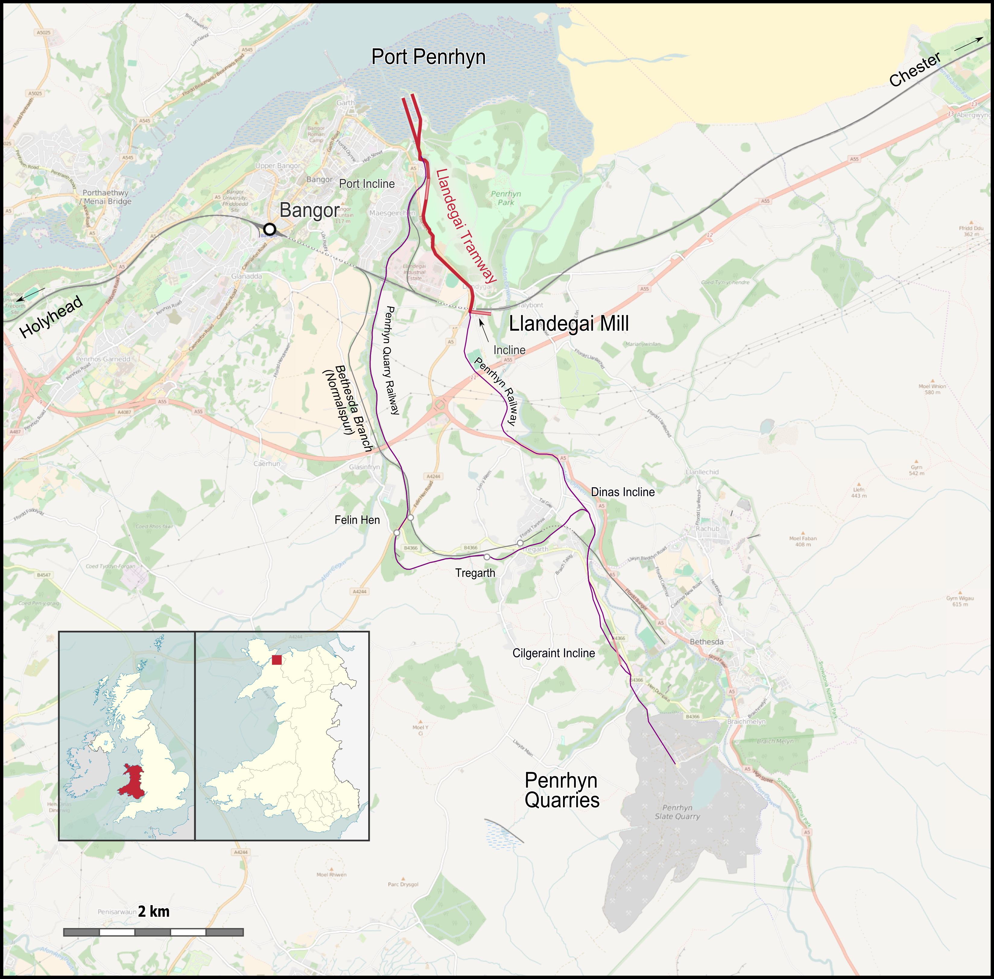 Map of Llandegai Tramway